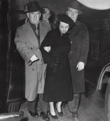 FBI arrested Judith Coplon on 4 march 1949. She became the first person prosecuted for espionage as a result of the successful «Venona» project’s detection of Soviet intelligence cable traffic.